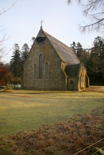 St. Drostan's Episcopal Church, Tarfside Built in 1879 by Lord Forbes in memory of his brother Alexander Penrose Forbes who was Bishop of Brechin.